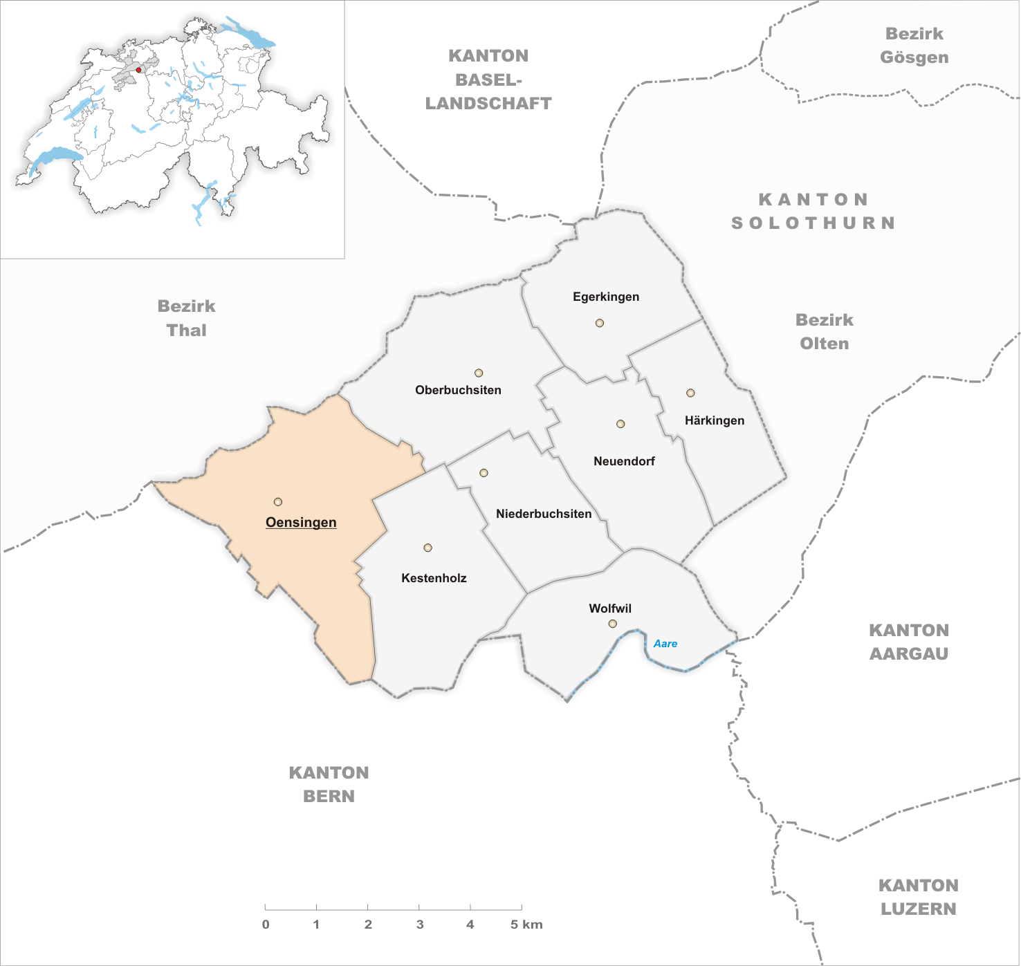 Municipality Oensingen